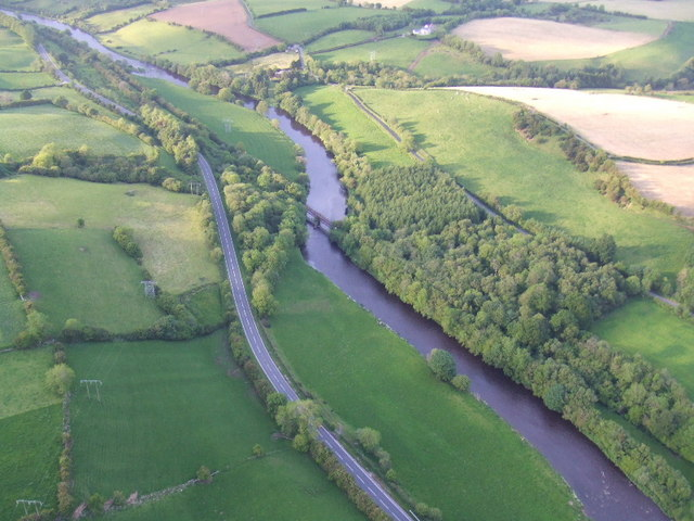 Blackrock Bridge This is an old disused railway bridge which used to carry the line from Omagh to Derry, over the river Mourne near Newtownstewart. Despite almost 50years neglect, the bridge is still standing. The road 'snaking' parallel to the river is the main A5 between Newtownstewart and Omagh.